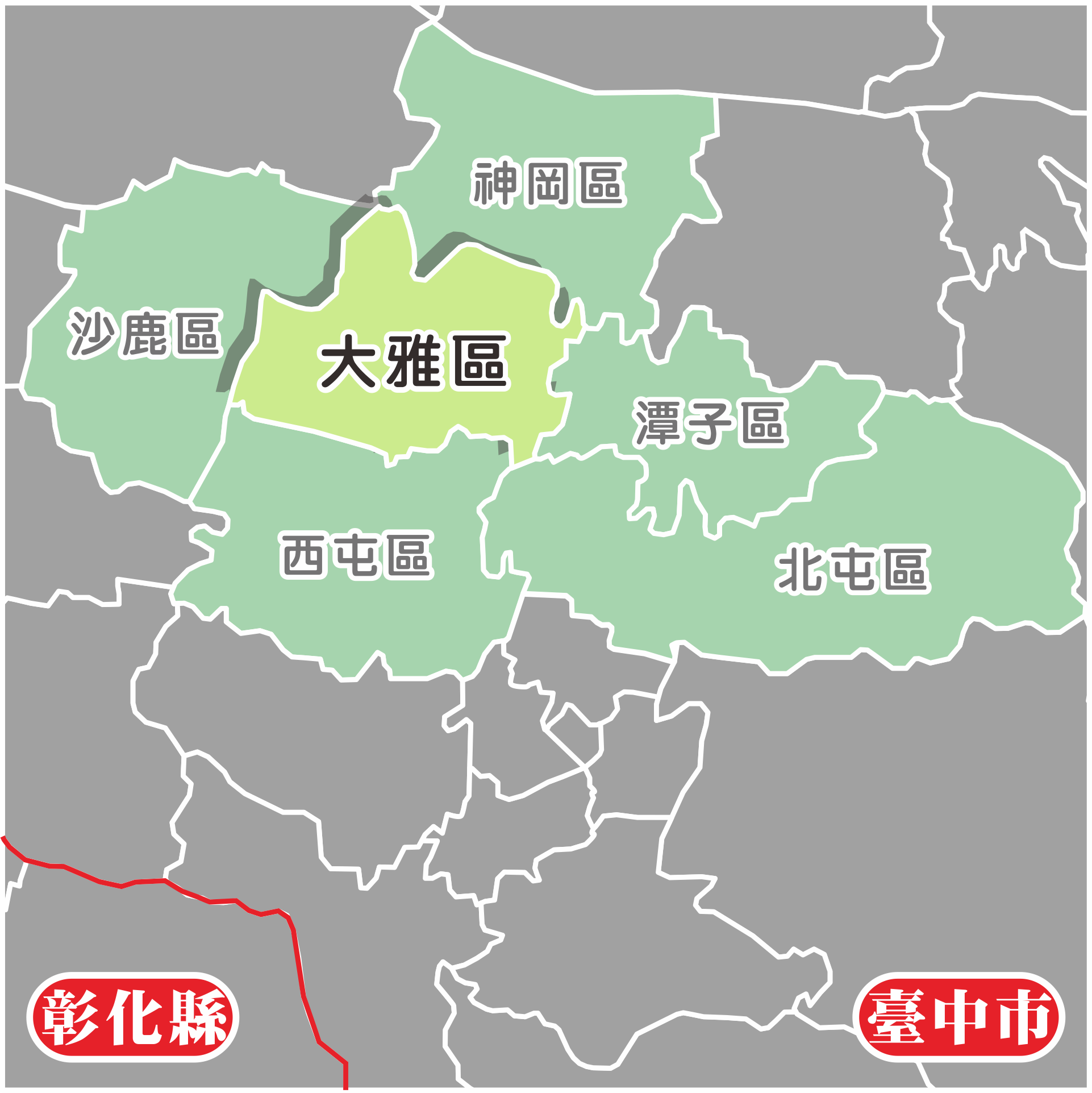 Daya District